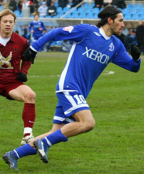 Daniel Miguel Alves Gomes in action for Dinamo Moscow